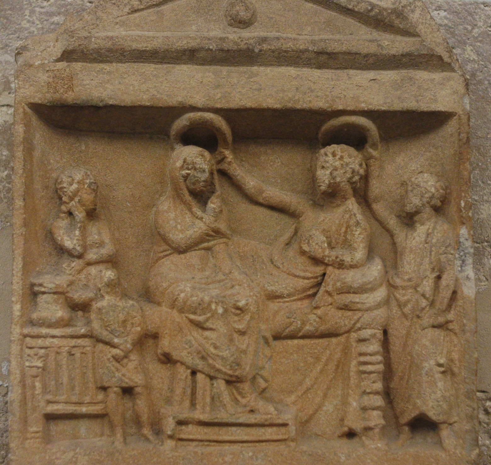 Funerary stele from Nicomedia (modern İzmit) in Bithynia, white marble, ca. 150–100 BC. The dead is figured reclining on a bed and surrounded by his wife and son. Two slaves, customarily figured in a diminutive fashion, stand at the end of the bed.